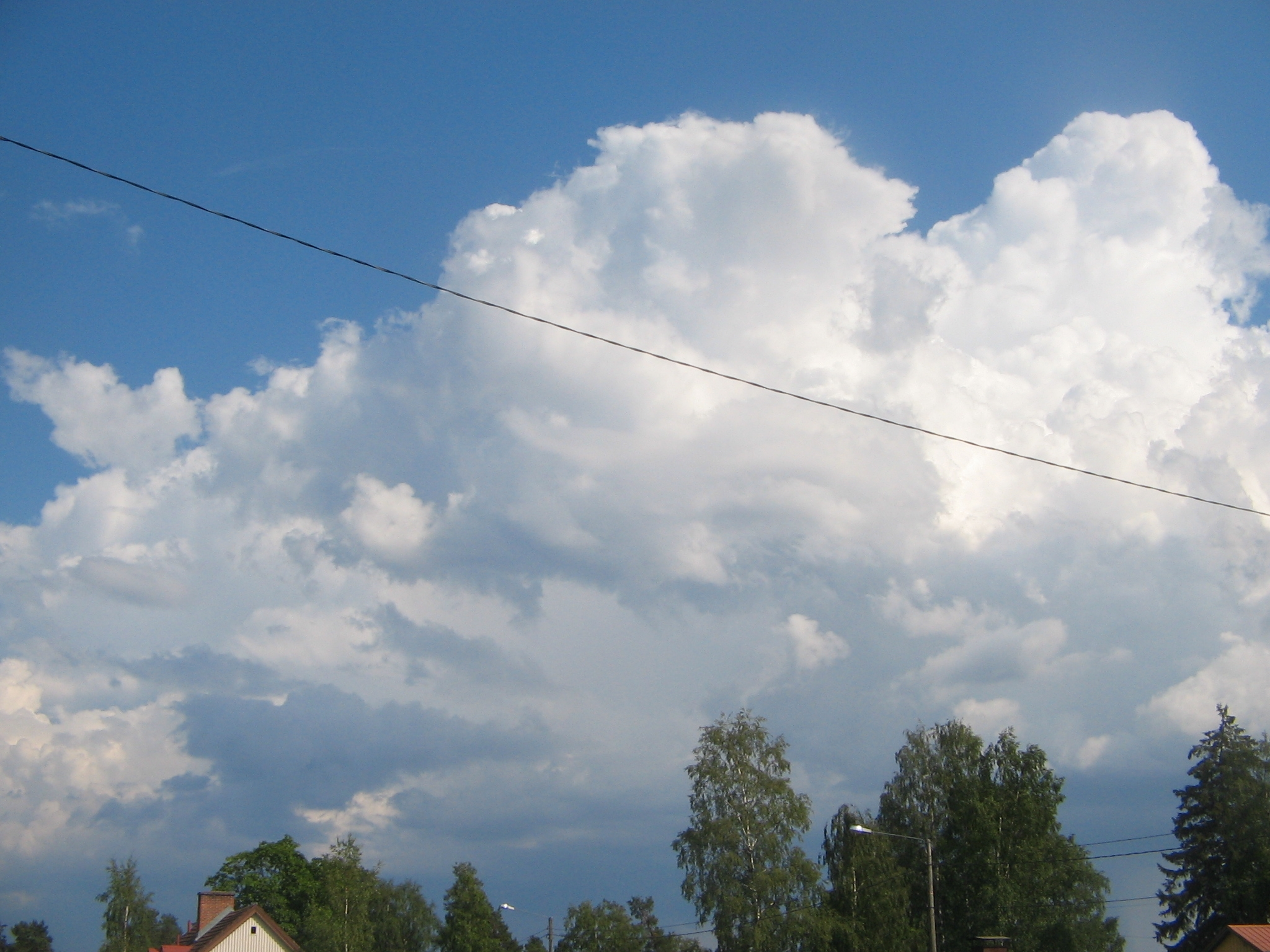 Meteorology/Cloud types:Cumulonimbus calvus- near image, bottom of cloud is dark, bottom is white.